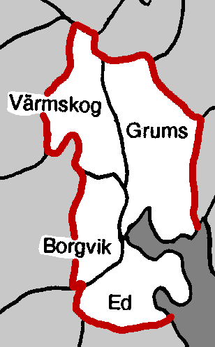 old municipalities of Grums